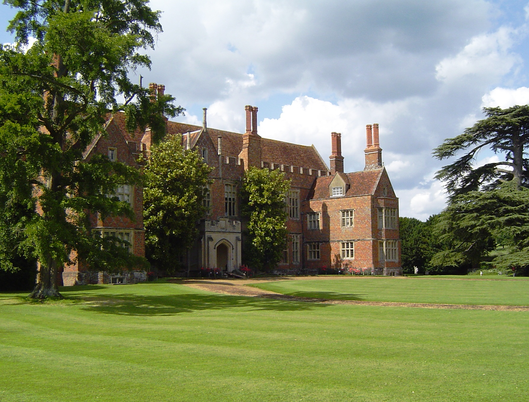 Mapledurham House near Reading England